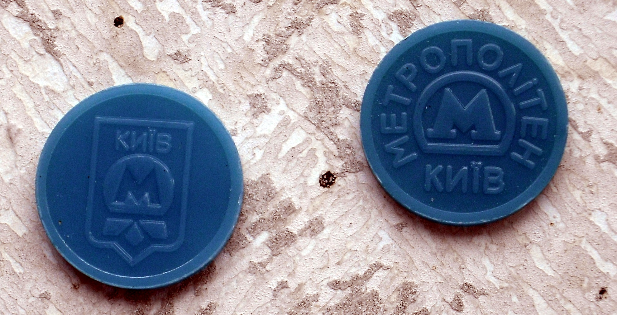 Kiev - metro - tokens